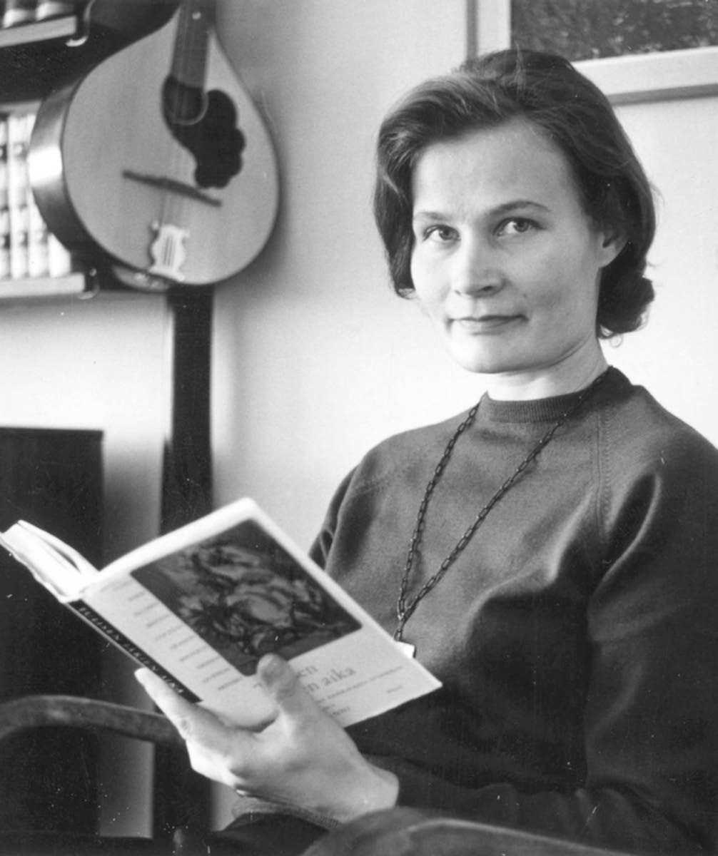 Photograph of the Finnish teacher and literature scholar Anna-Liisa Alanko (1935–2018).